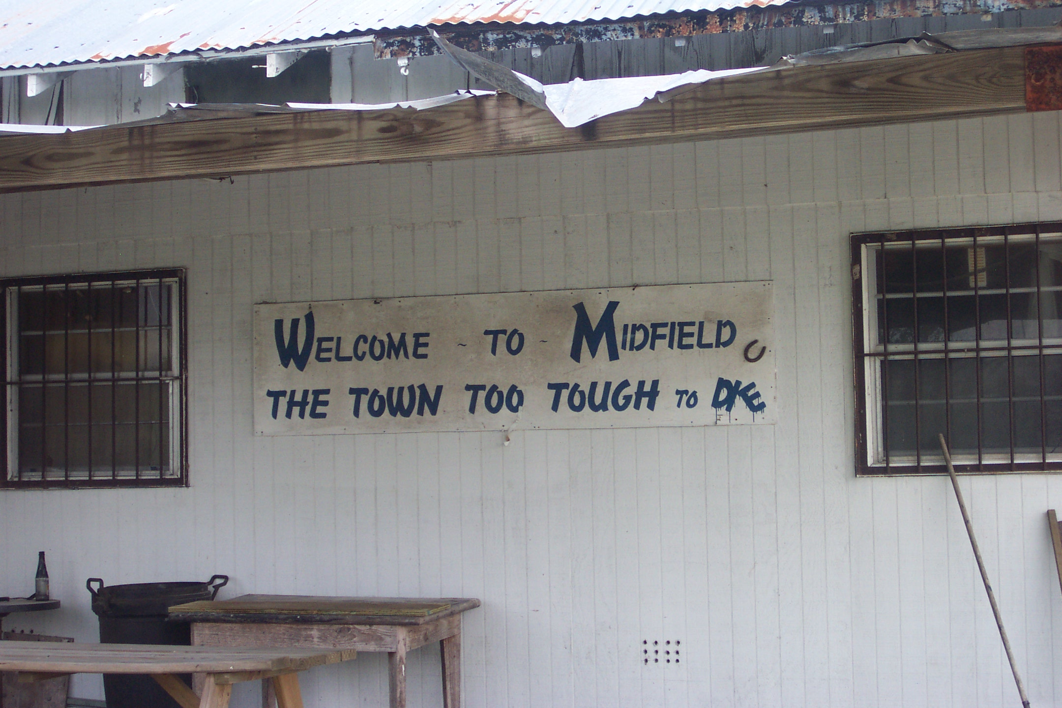 A sign on a store in the tiny community of Midfield, TX